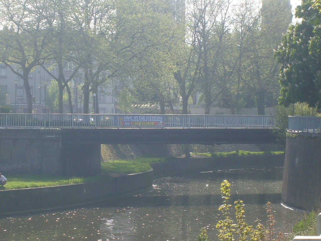 "Royal Bridge" Dunkirk